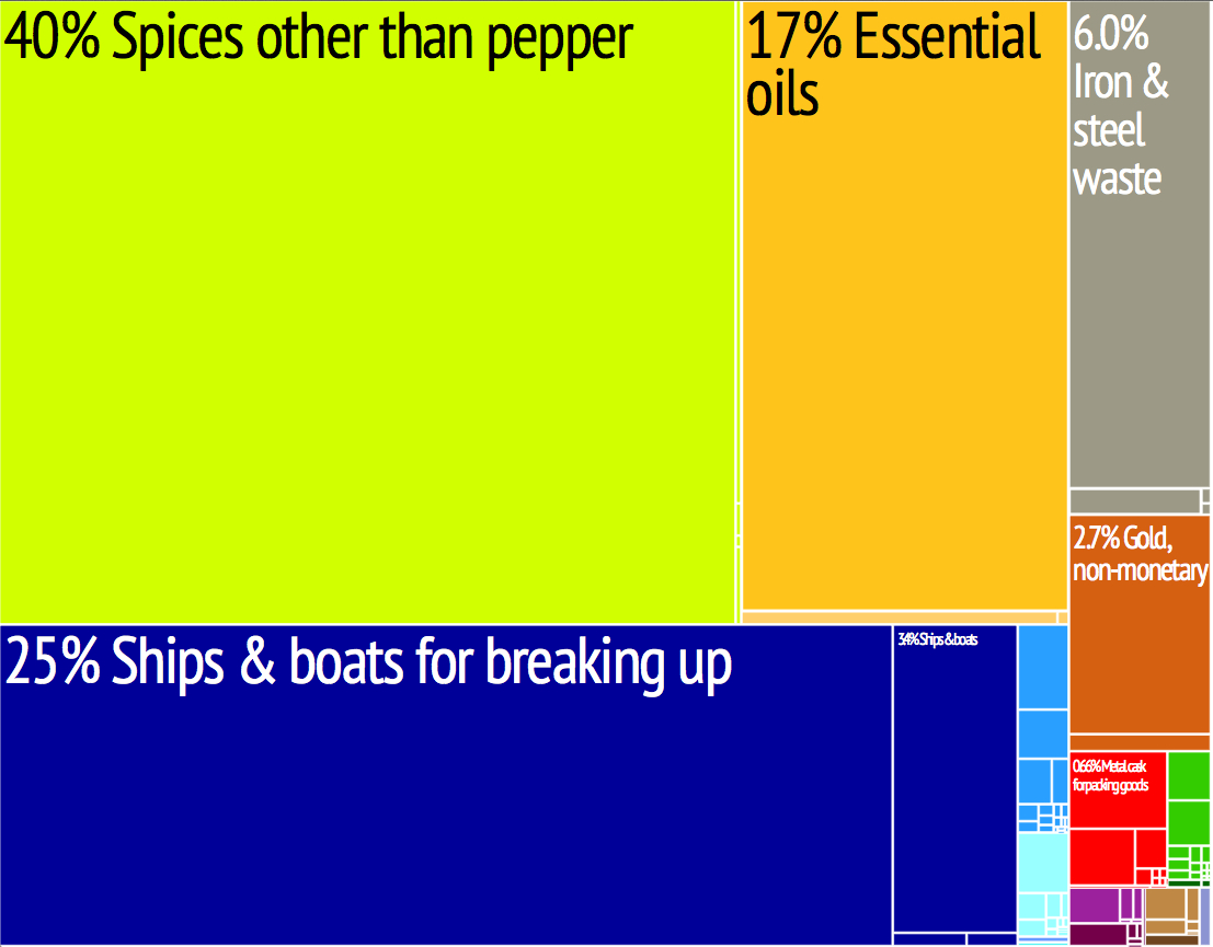 Export Trading Treemap. From MIT/Harvard Atlas of Economic Complexity